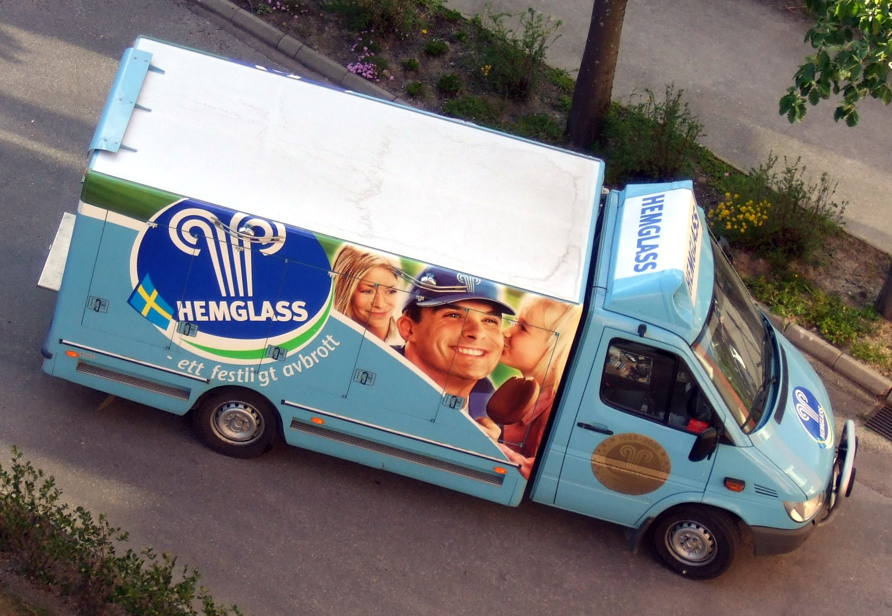 Swedish ice cream van (Hemglass brand) seen partly from above in Sundsvall, Sweden.